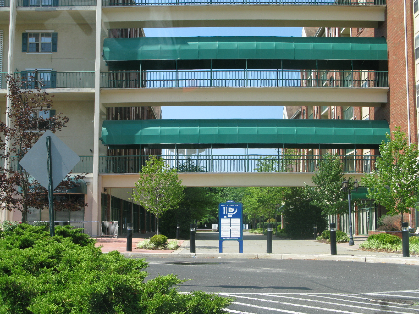 Main Street Complex condominiums (2nd floor and above) and offices/businesses (1st floor). The photo shows the breezeways that connect each building. Taken in July 2011 in Voorhees, New Jersey.